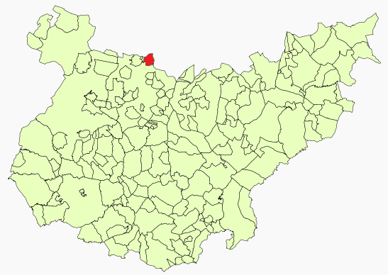 Carmonita